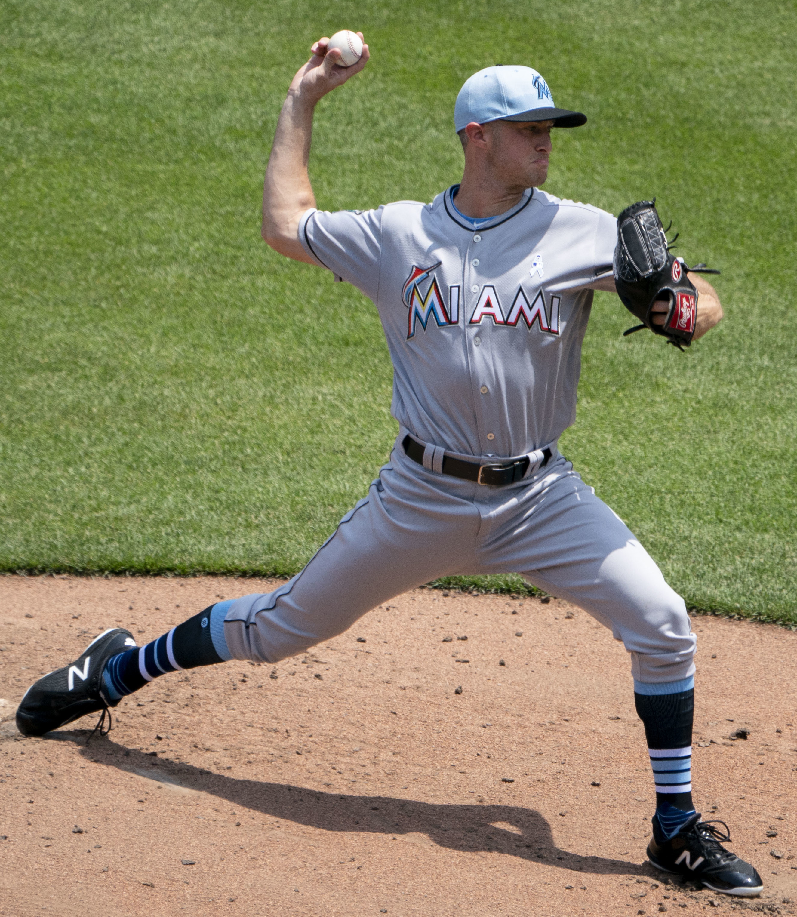 Marlins at Orioles 6/17/18